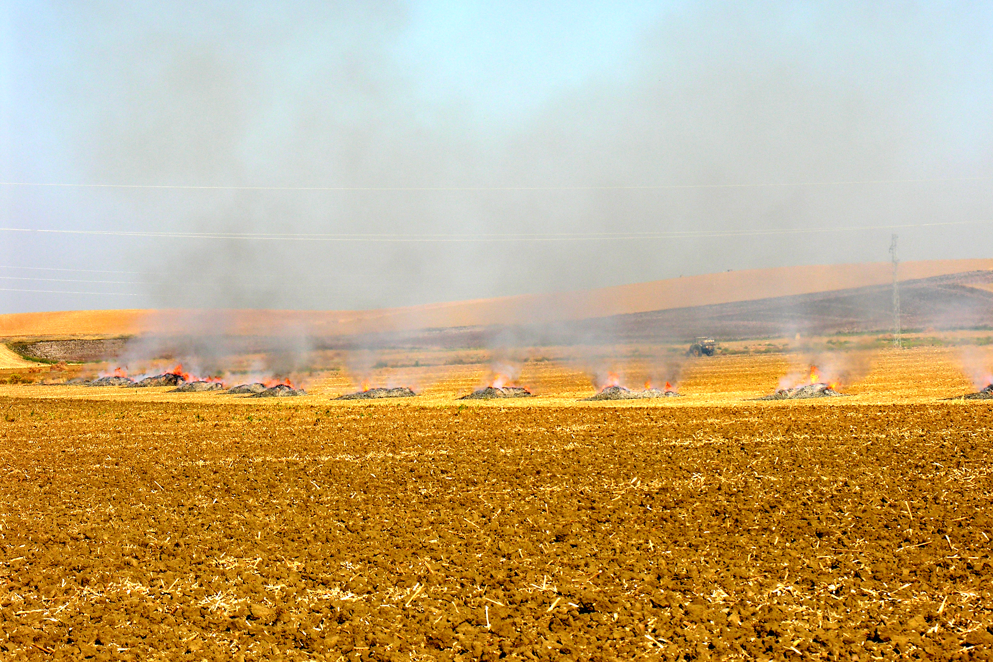 Cotton fields near Écija, province of Seville, Spain.